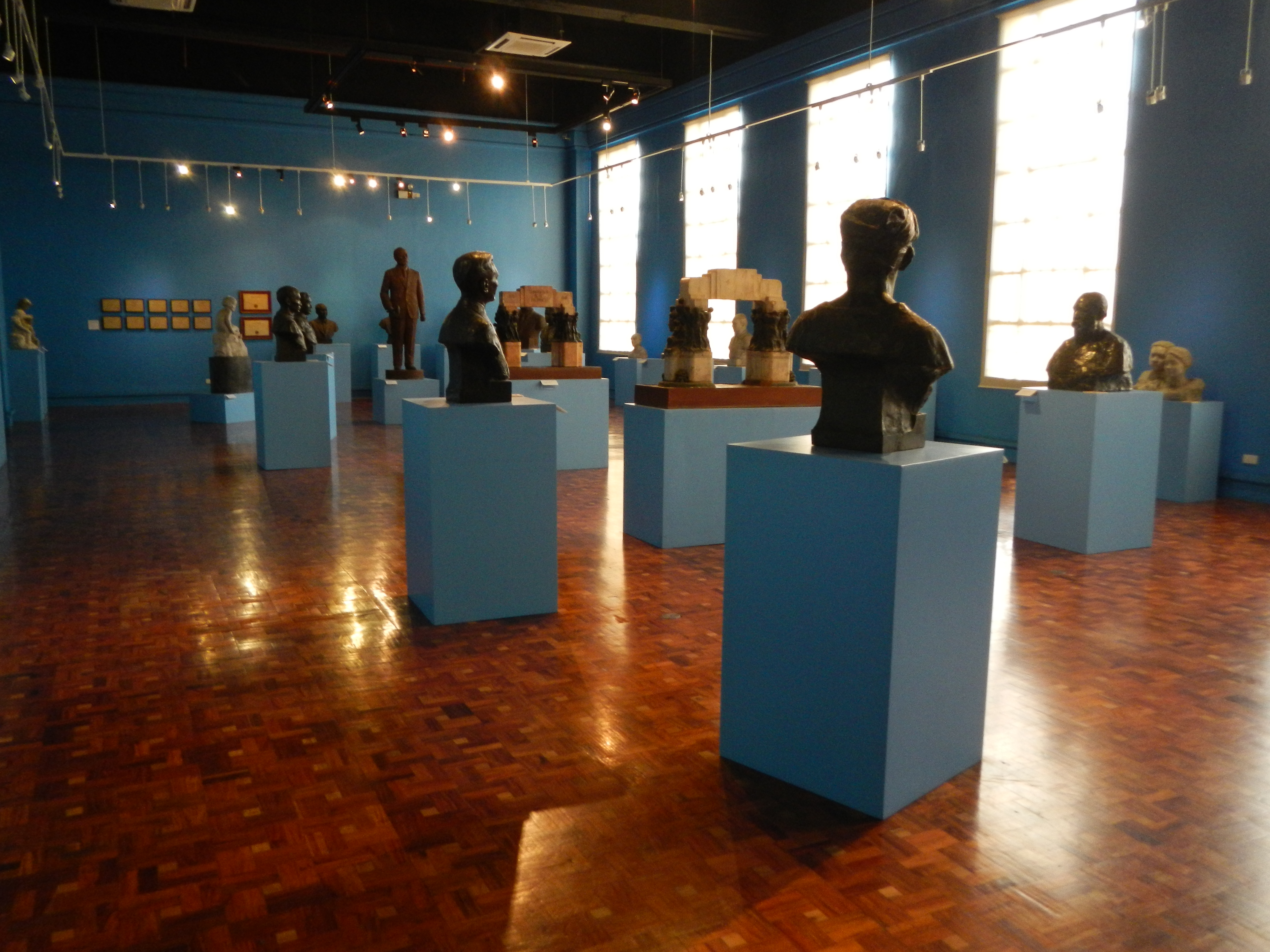 Photos of the National Art Gallery of the National Museum of the Philippines[1][2] the Old Legislative building.I have taken photos of the exterior and the ground floor which has all the galleries of art. Nota Bene: (all the photos were expressly permitted by the Curator, and all the photos of subjects are more than 80 years old and or not covered by the prohibitions on copyright law, with all due respect).